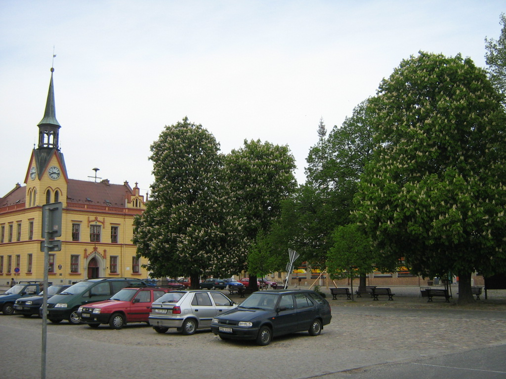 Town square in Vidnava, Jeseník District, Czewch Republic